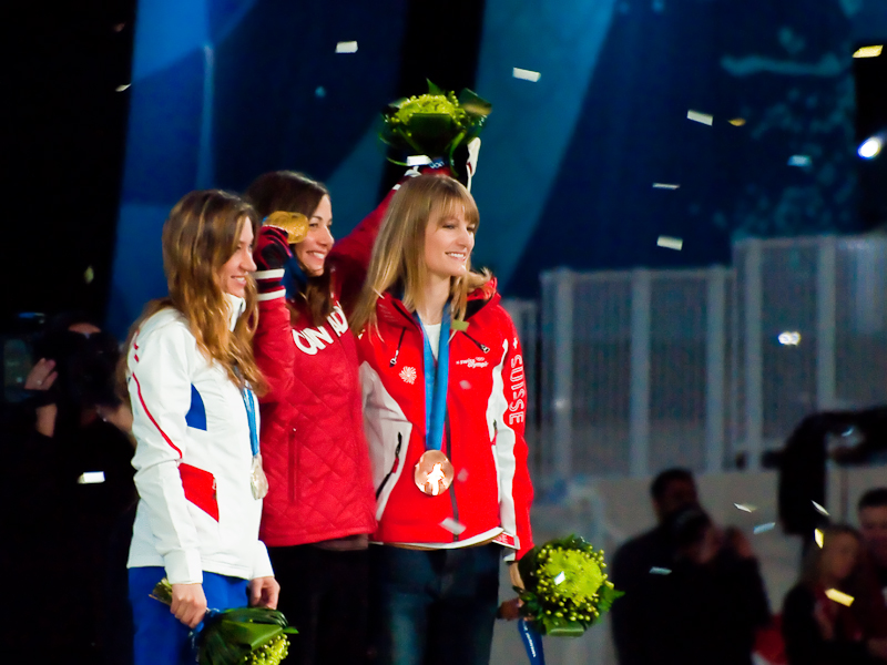 Deborah Anthonioz, Maëlle Ricker, and Olivia Nobs (left to right) pose for pictures after receiving their medals for snowboard cross